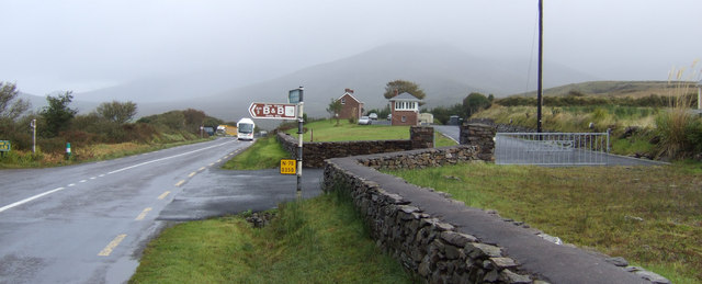 The old station at Gortnagree, Co. Kerry The line which bought the railway to Ireland's far west (the Valentia ferry) was opened in 1893 and closed in 1960. Here the signal box, platform and trackbed are still well in evidence at the top of the pass between Cahersiveen and Kells. The N70 Ring Of Kerry road runs alongside, and here comes one of the scores of coaches a day which make the anti-clockwise circular journey around the Iveragh Peninsula.